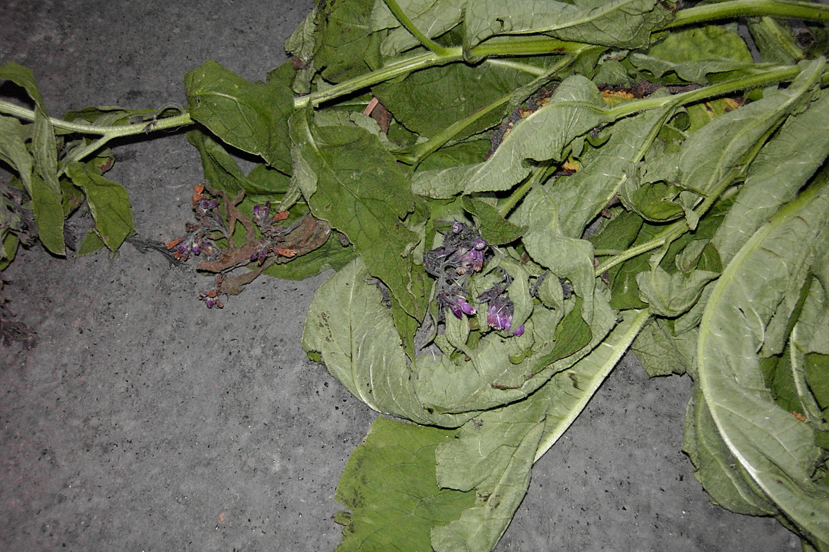 Symphytum officinale found in field of canola/rape seed; a real problem! it gets more and more